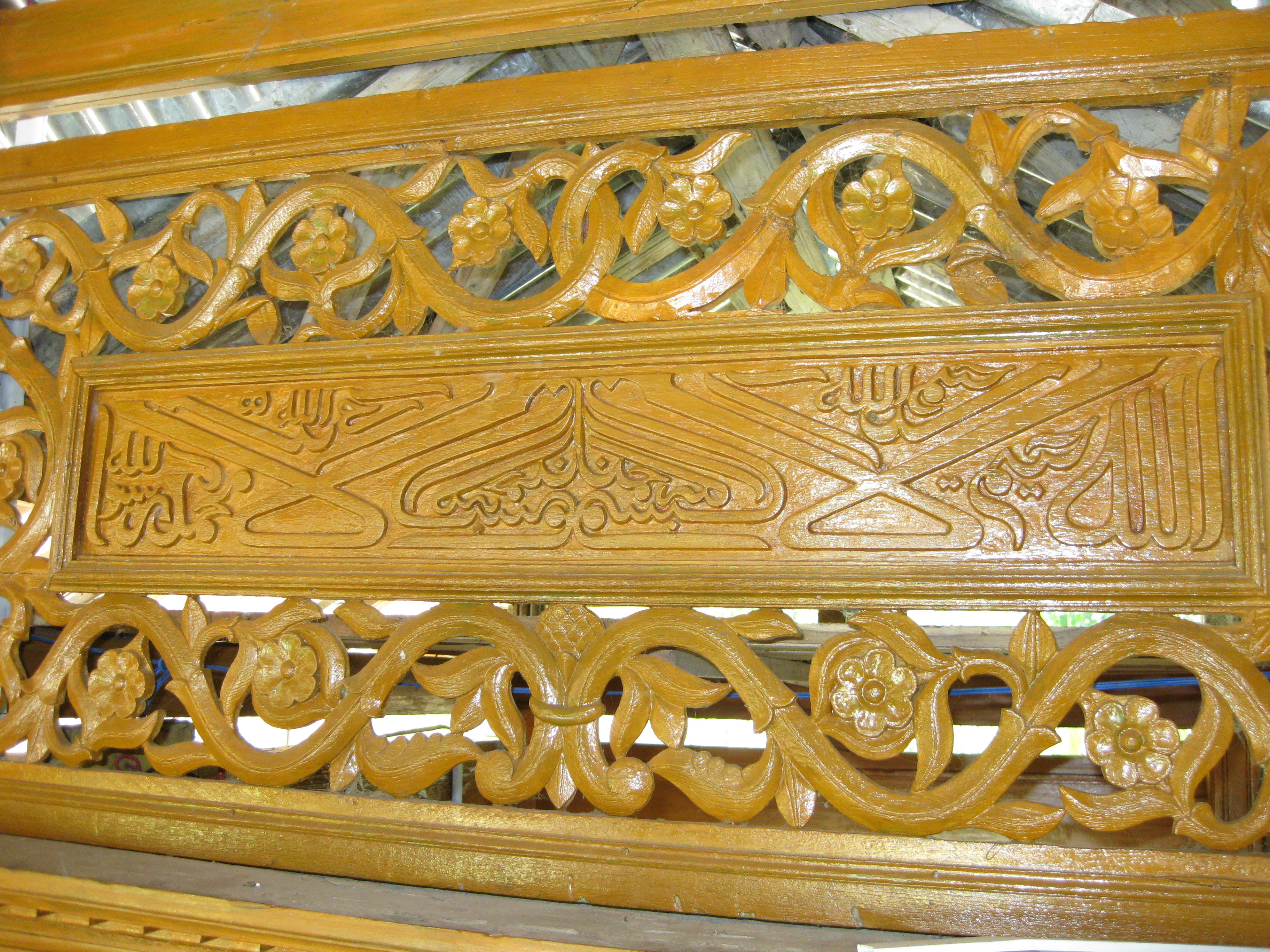 Arabic calligraphy on outside of Momin Mosque.